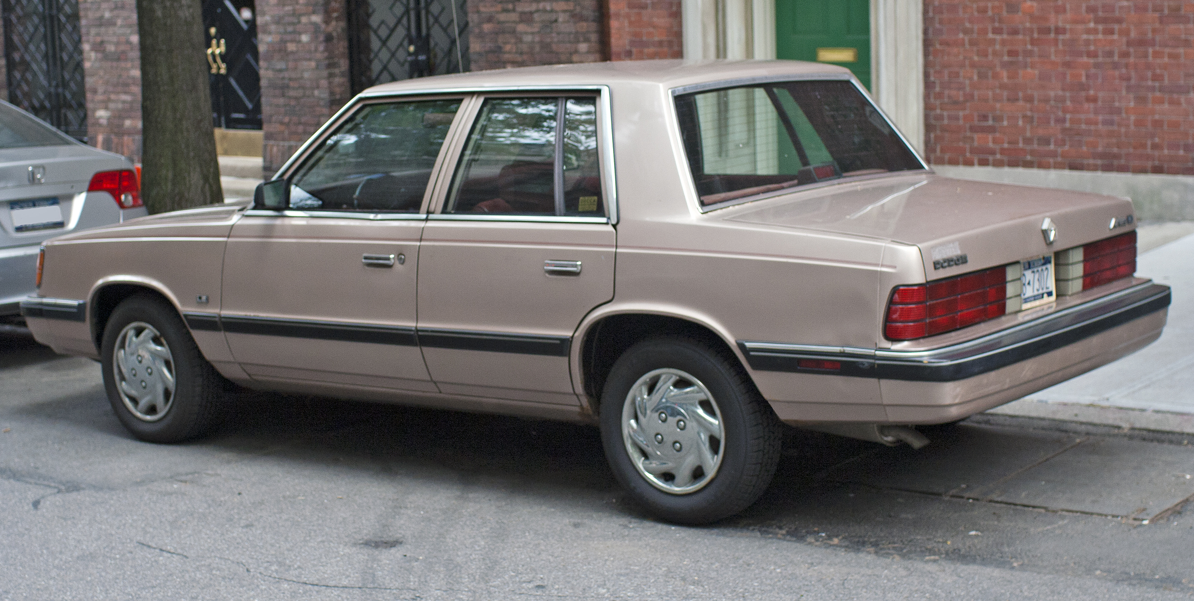 1988 Dodge Aries four-door sedan